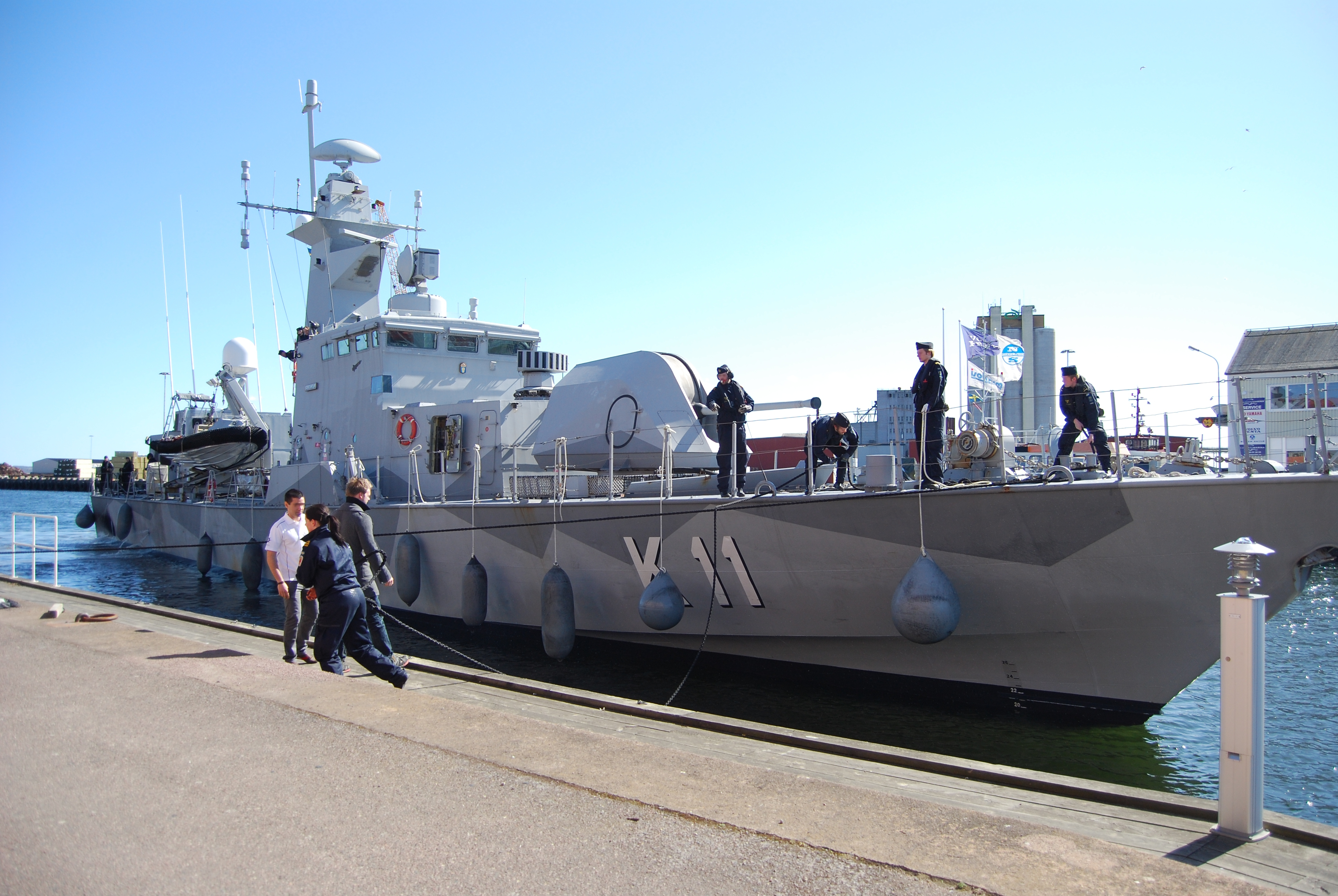 The Swedish corvette HMS Stockholm mooring in Kalmar, Sweden.